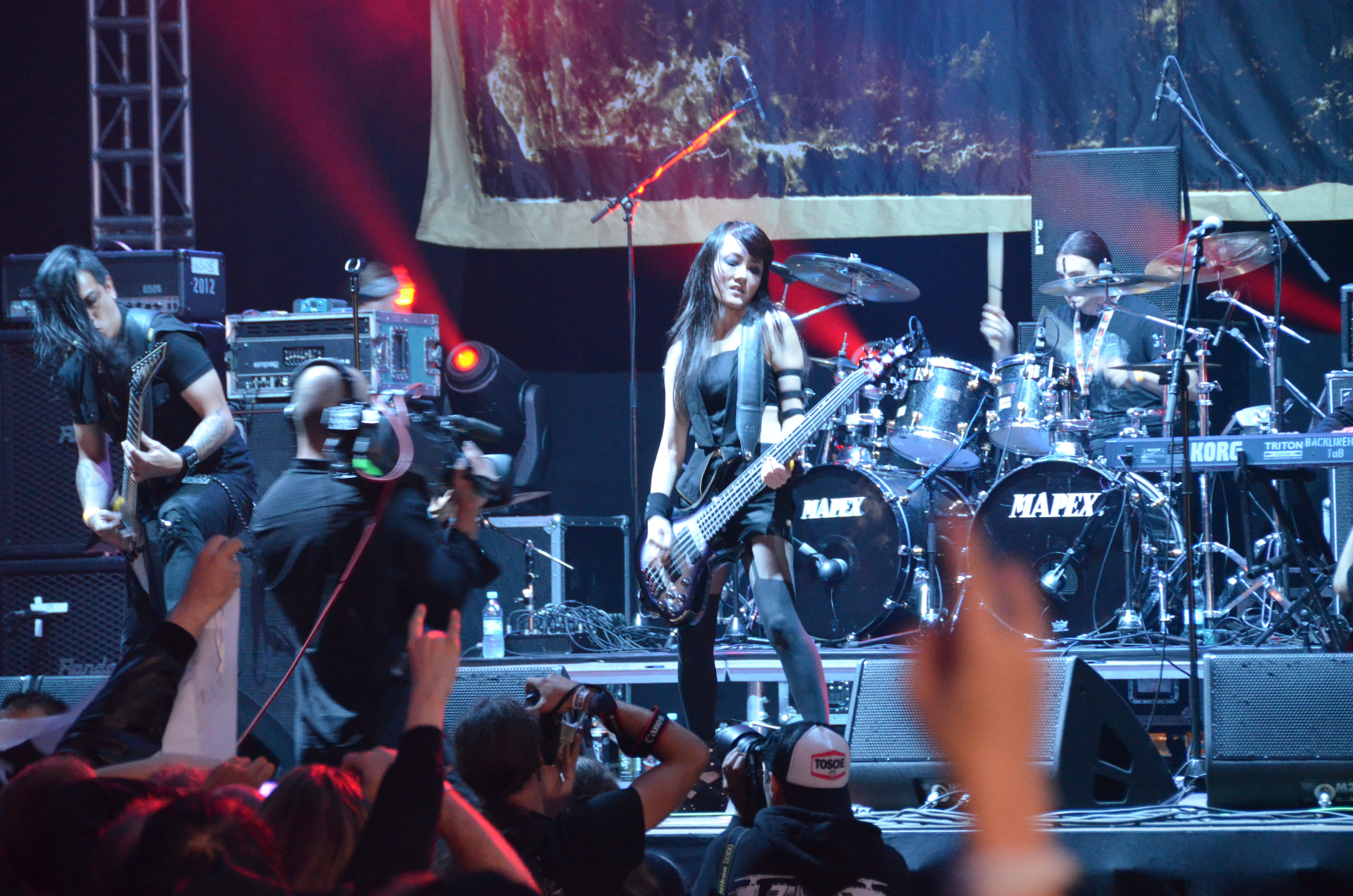 Chthonic at Wacken Open Air 2012